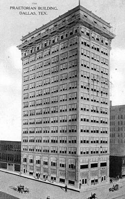 The Praetorian Building, the first skyscraper in Dallas. Image is taken from an old postcard published in 1908, one year before the building's 1909 completion. Image taken from